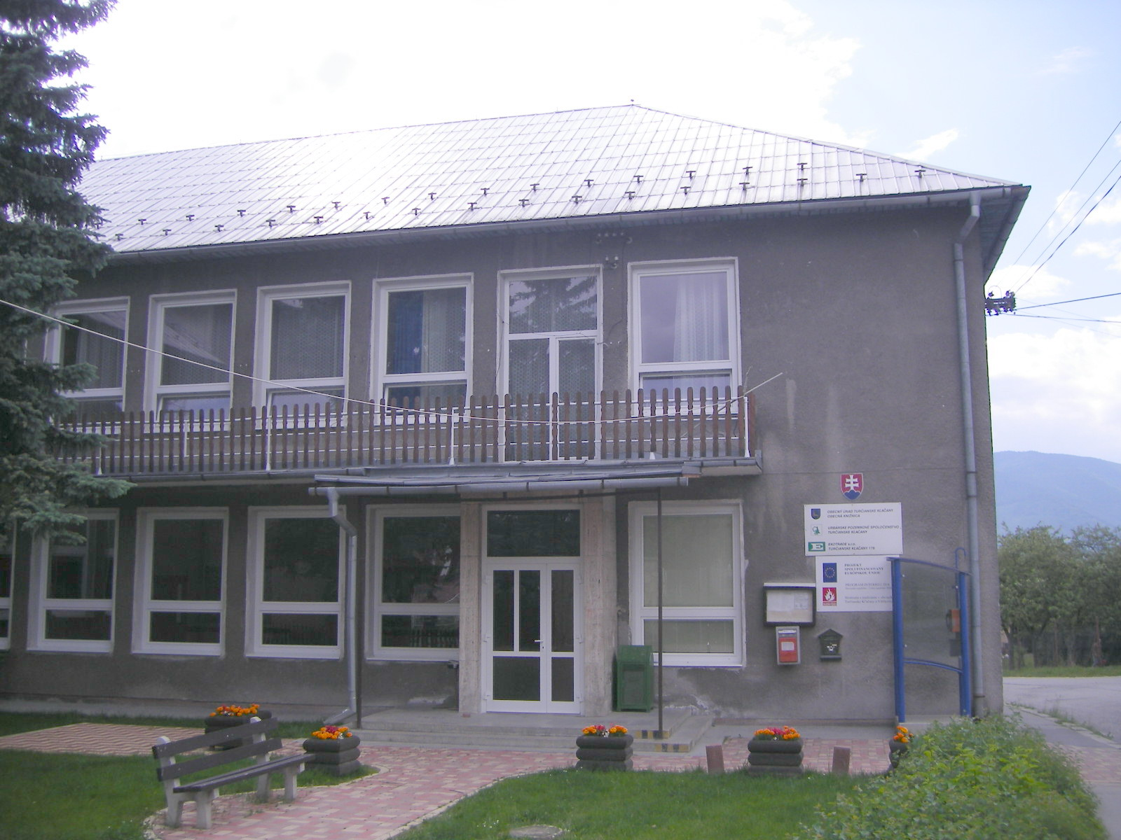 Turčianske Kľačany - town hall